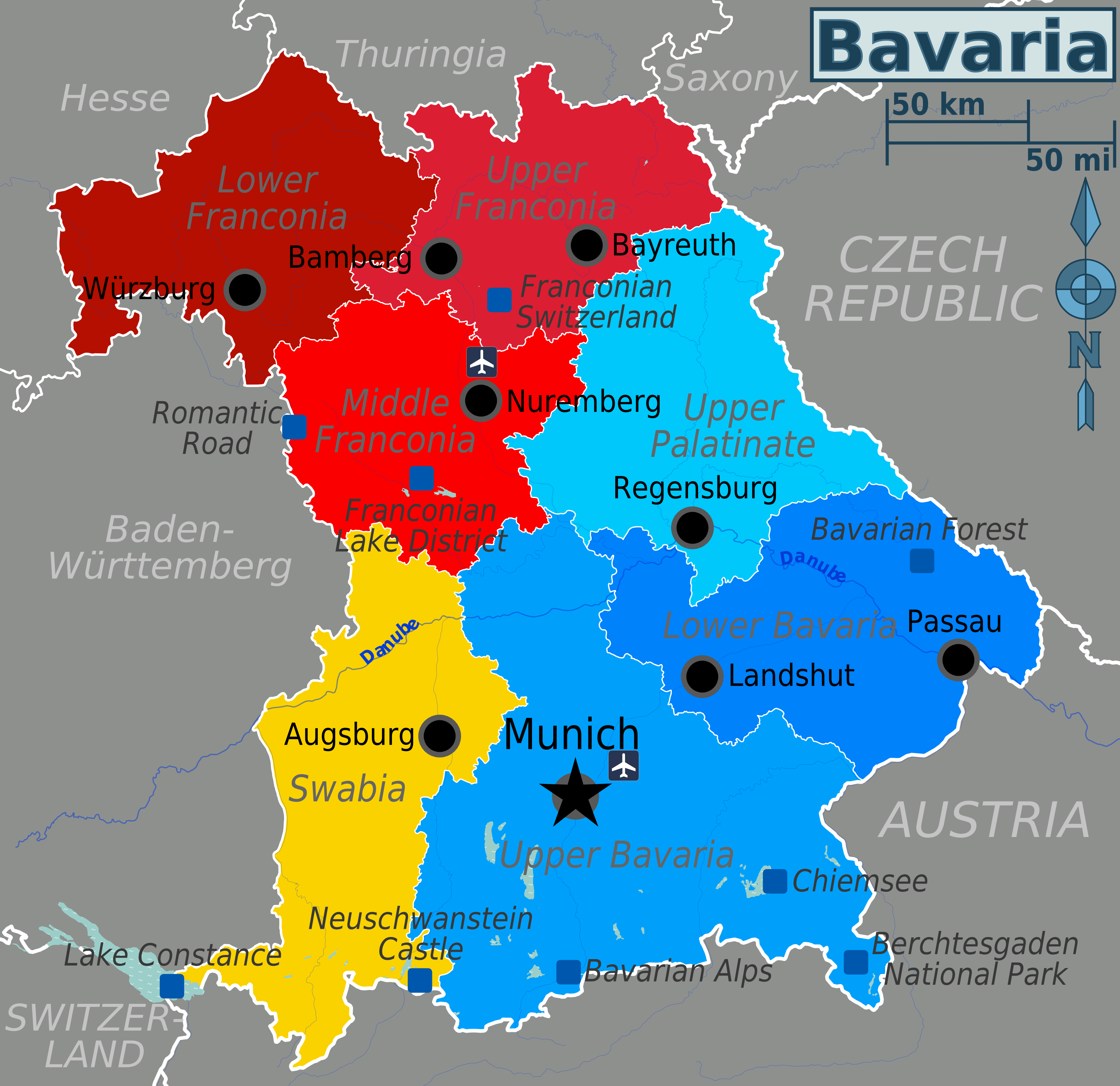 Bavaria regions map for use in Wikivoyage, English version